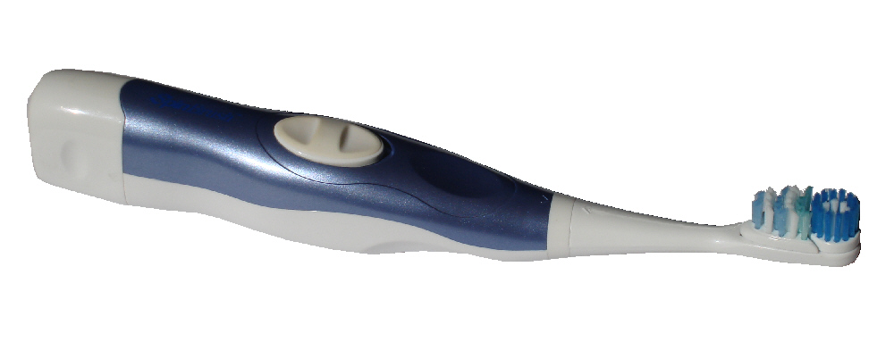 A Motorized toothbrush (also called "electric toothbrush")